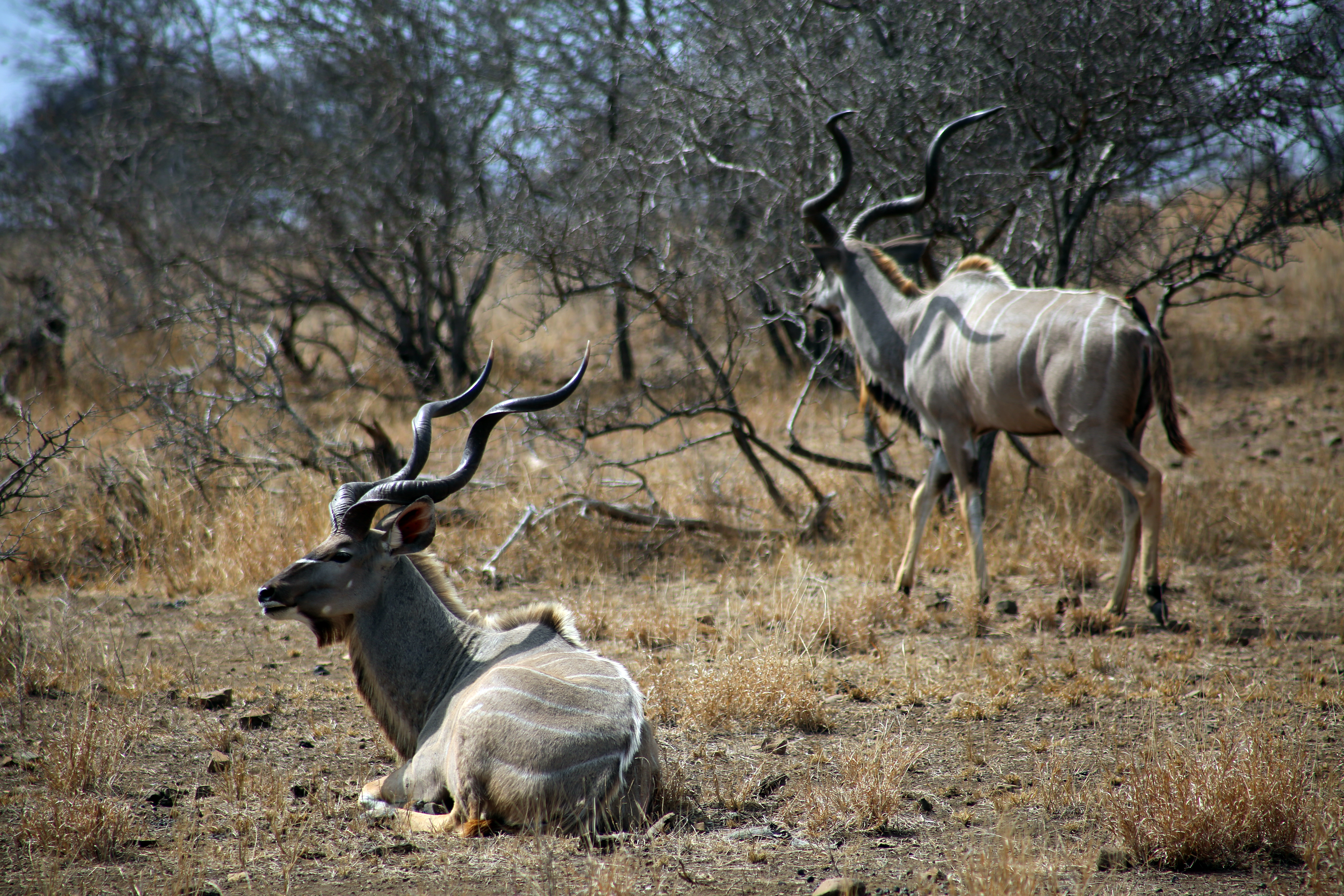 Kruger National Park, South Africa